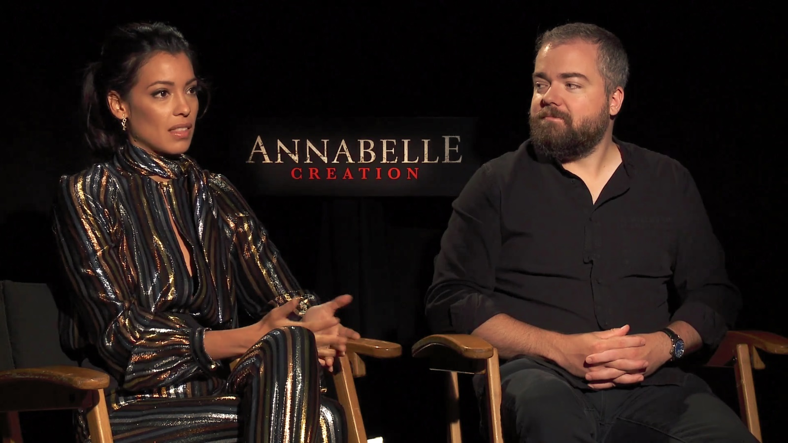 Actress Stephanie Sigman and director David F Sandberg talk about their experience filming Annabelle: Creation - in theaters August 11th, 2017.